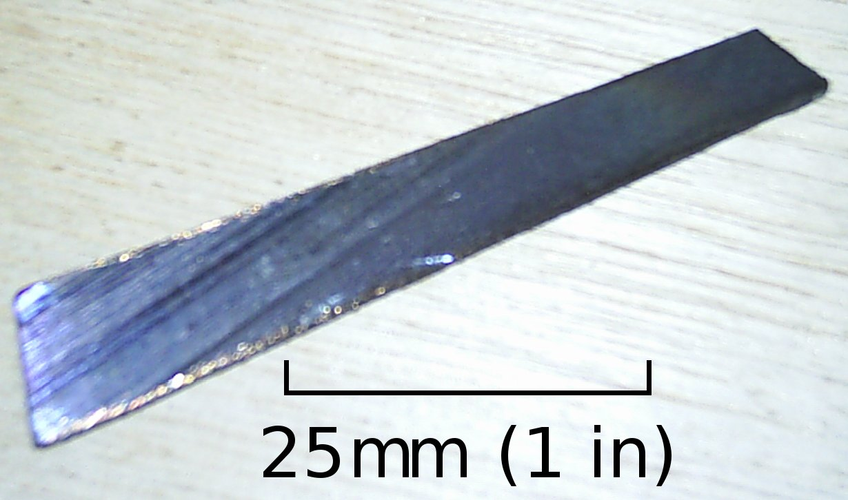 This is a 10 gram sample of U-238 that I own.